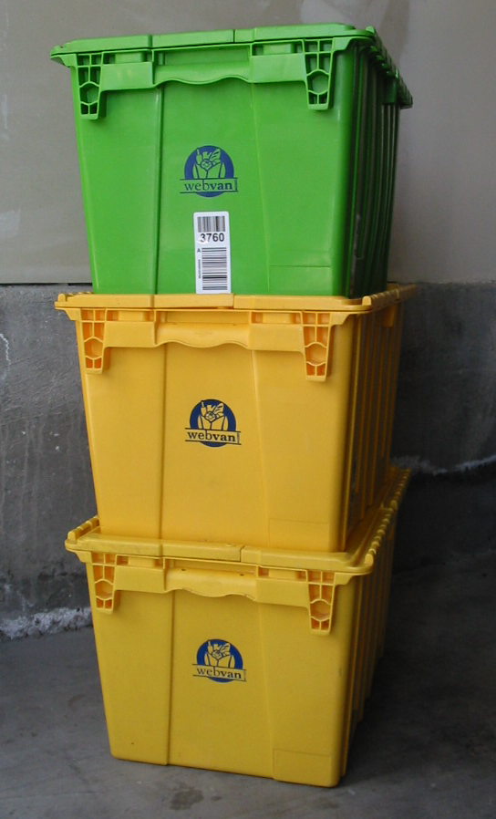 A stack of three of my five webvan tubs. Photo taken by me in my garage. August 31, 2007. binksternet